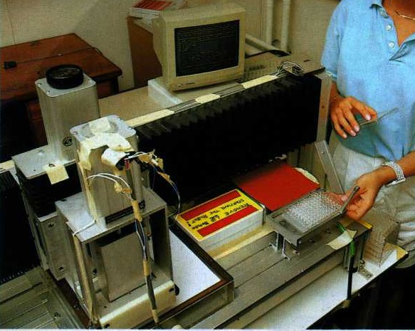 Early version of spotting robot to generate macroarrays of genomic and cDNA clones from microtiter plates. Developed at the ICRF, London for the Reference Library DataBase (RLDB).